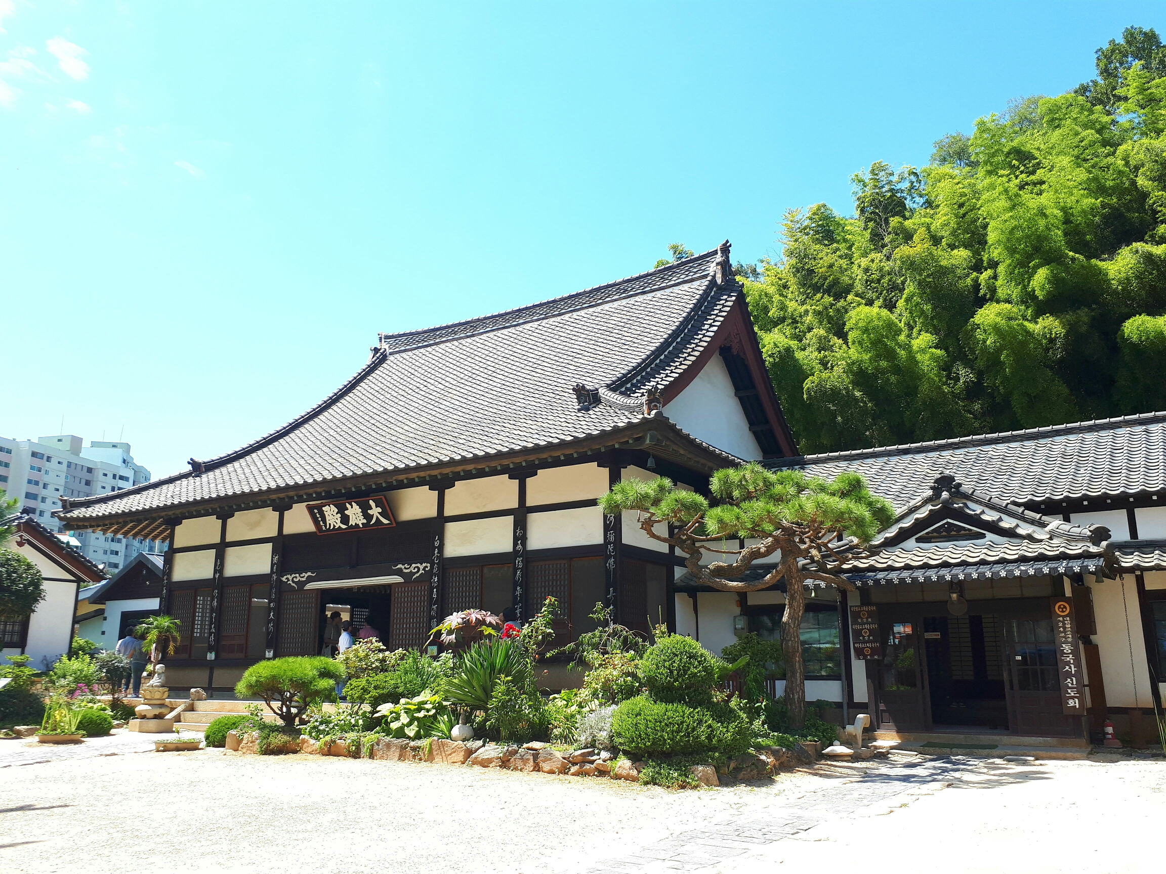 Dong-guk Temple, located at Gunsan City. It is the only Japanese style temple in South Korea.